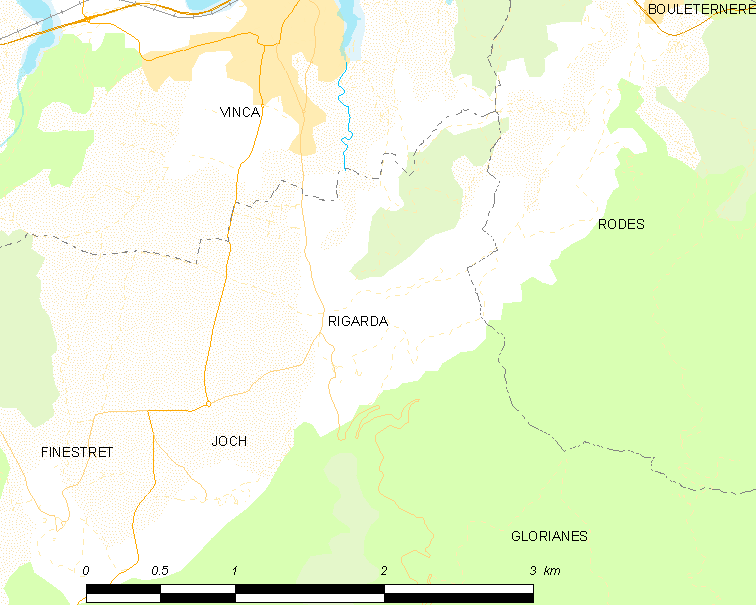 Map of French municipality